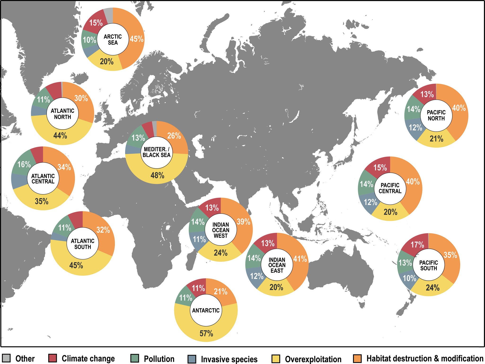 The distribution of anthropogenic stressors faced by marine species threatened with extinction in various marine regions of the world. Numbers in the pie charts indicate the percentage contribution of an anthropogenic stressors’ impact in a specific marine region. Percentages under 10% are not displayed for visualization purposes.